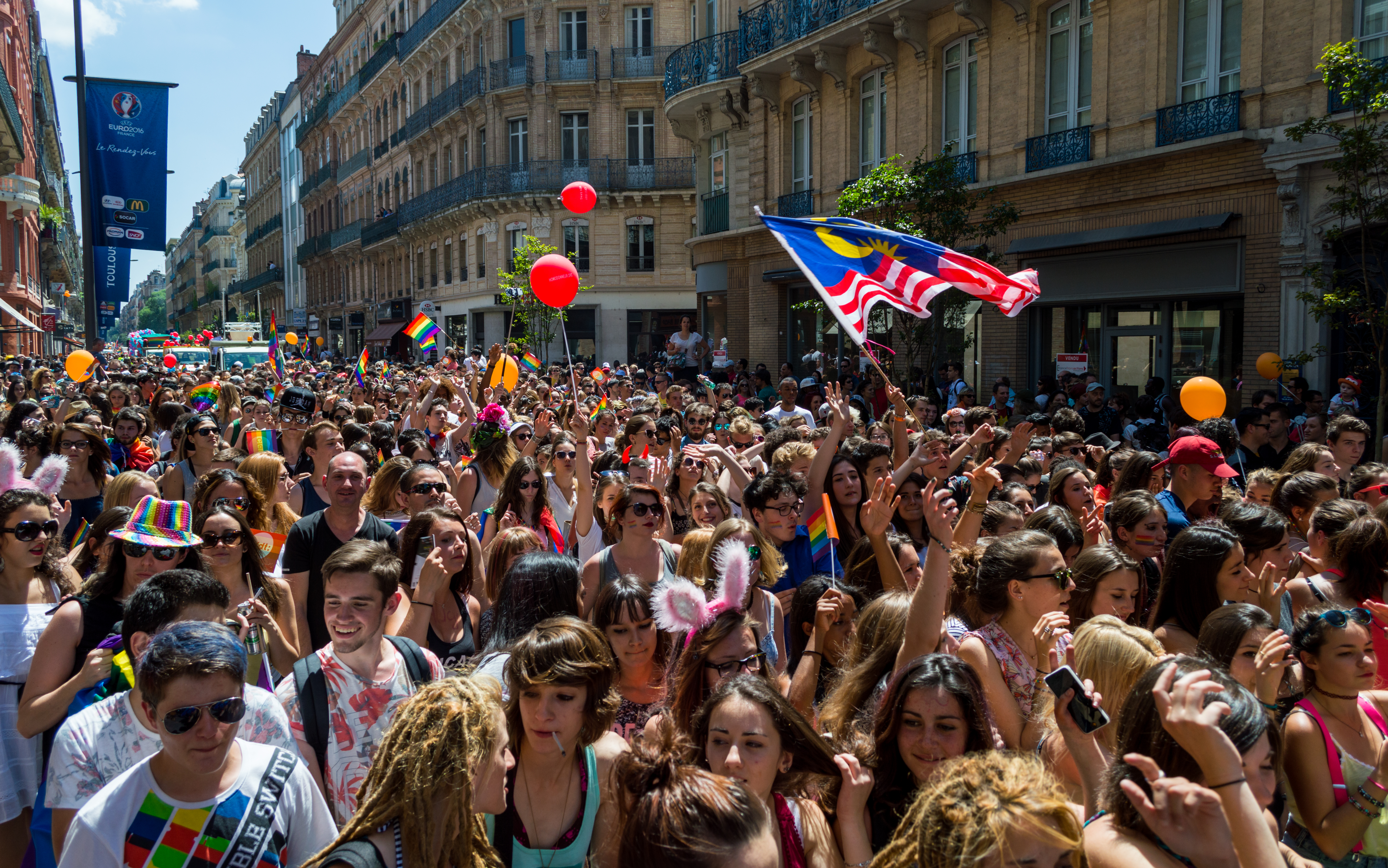 2015 Gay Pride